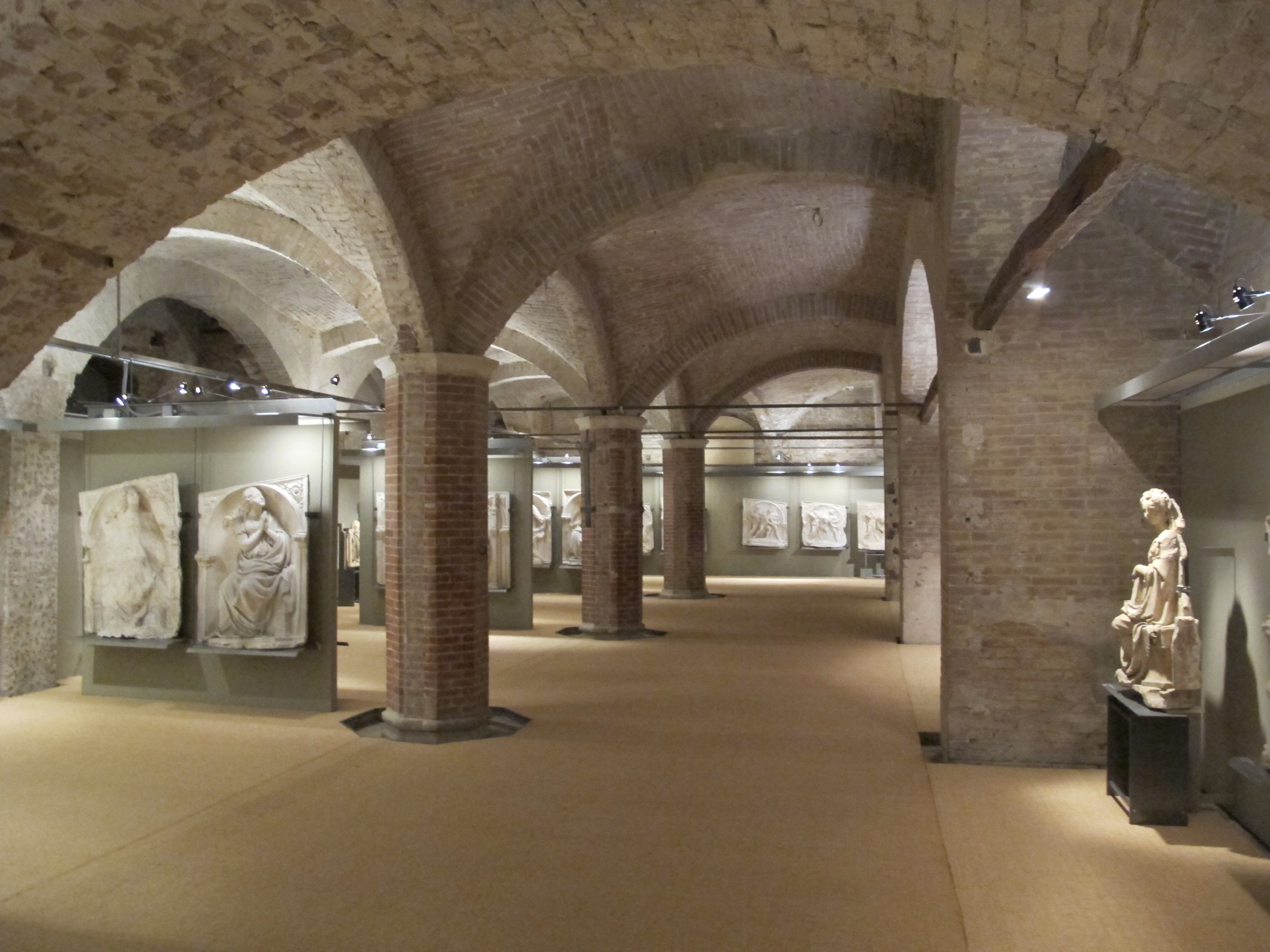 Santa Maria della Scala Hospital (Siena)